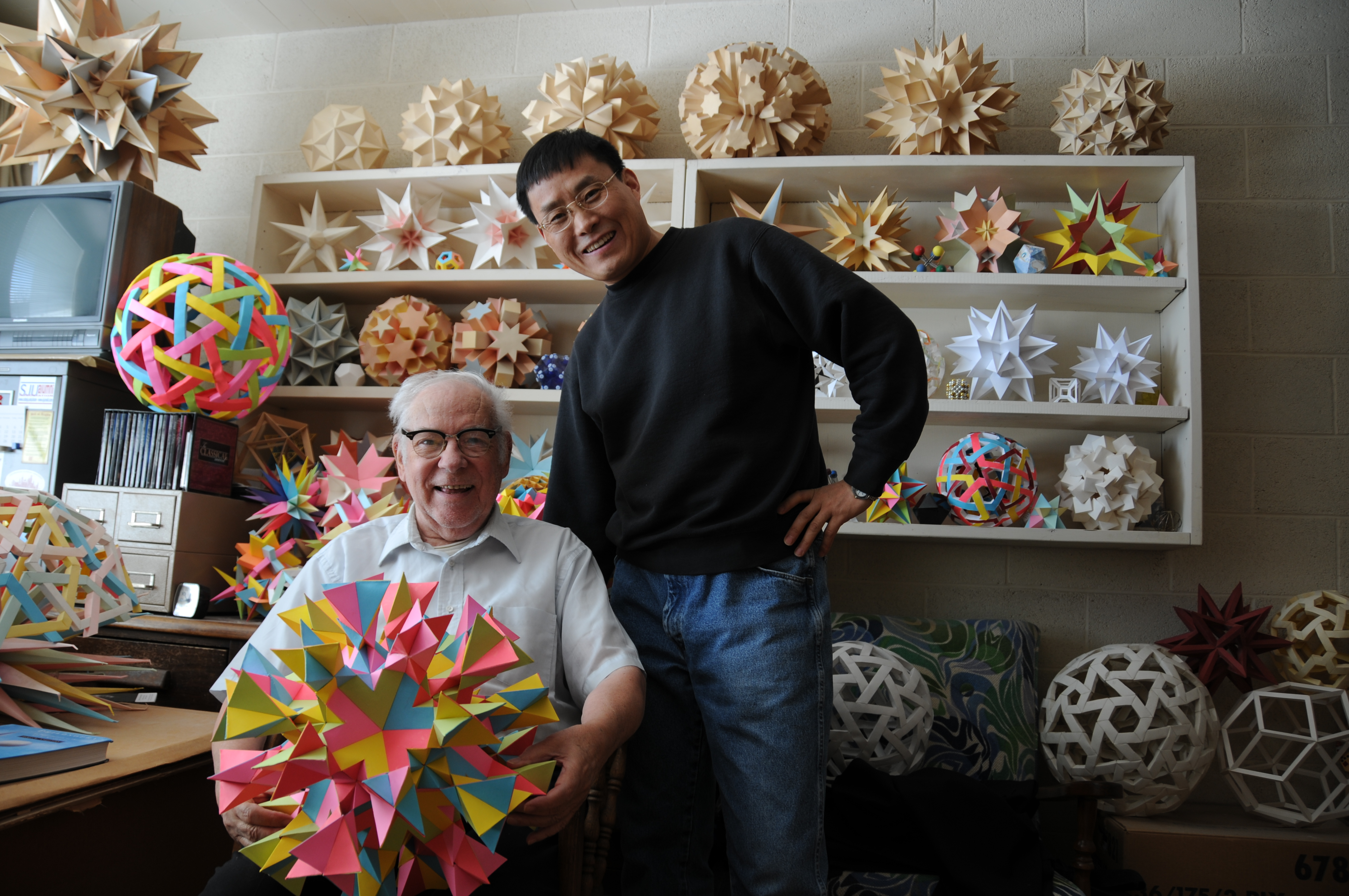 Magnus_Wenninger photo in his office with his models with a visiting theology student.